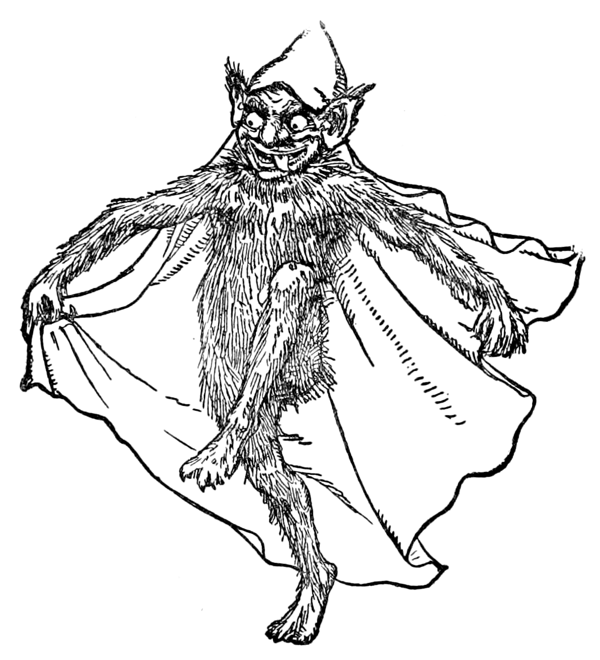 illustration from a book of fairy tales, ""What's a Brownie?" you say. Oh, it's a kind of a sort of a Bogle, but it isn't so cruel as a Redcap! What! you don't know what's a Bogle or a Redcap! Ah, me! What's the world a-coming to?